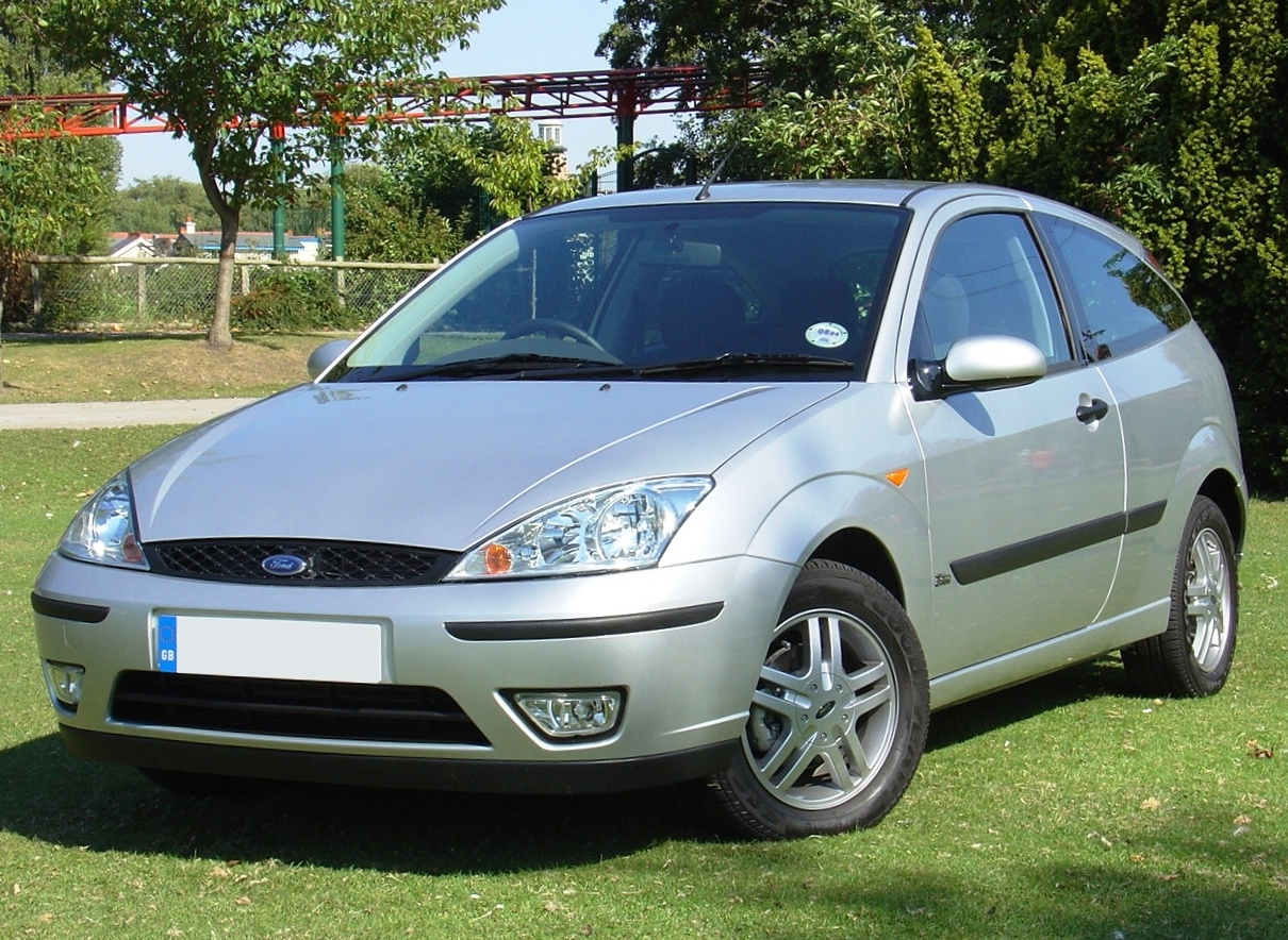 Ford Focus 1.8 Zetec (2001)